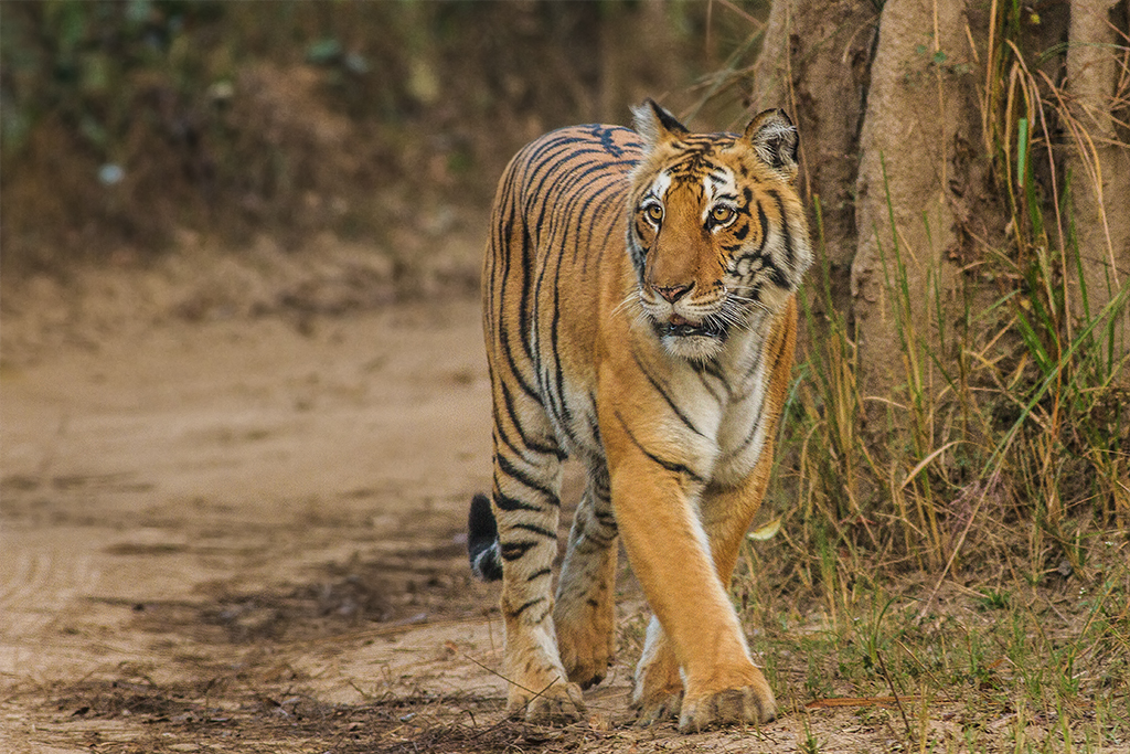 Tigress walking on the gypsy track in Bijrani zone.